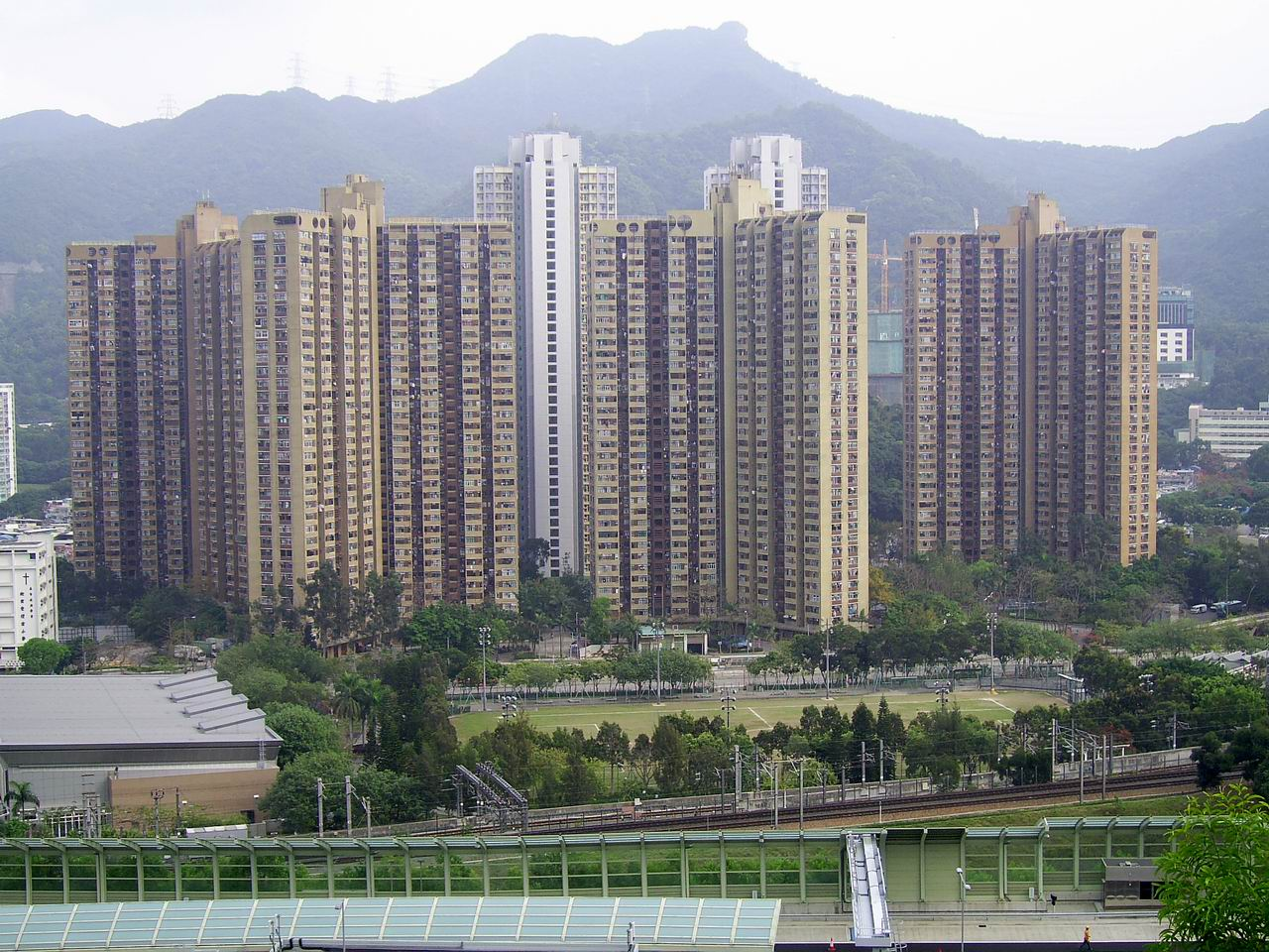 Hin Keng Estate, with Lion Rock in the background. 顯徑邨全景